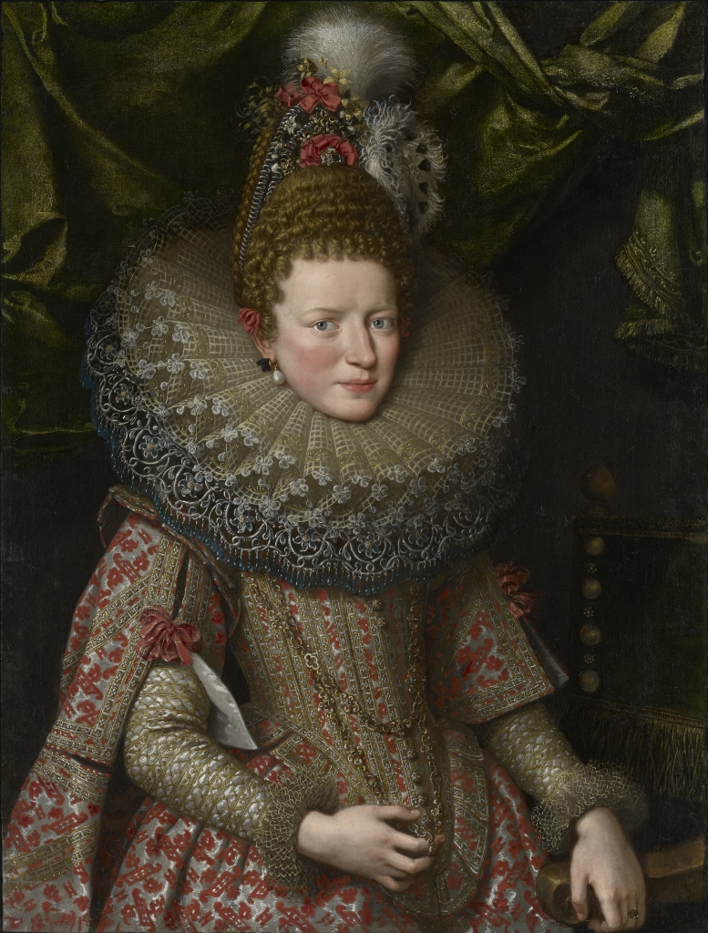 Margherita Gonzaga, Duchess of Lorraine (1591-1632)